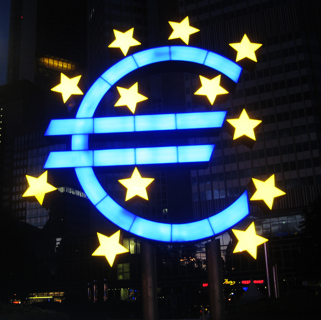 Euro symbol in front of the ECB, at night